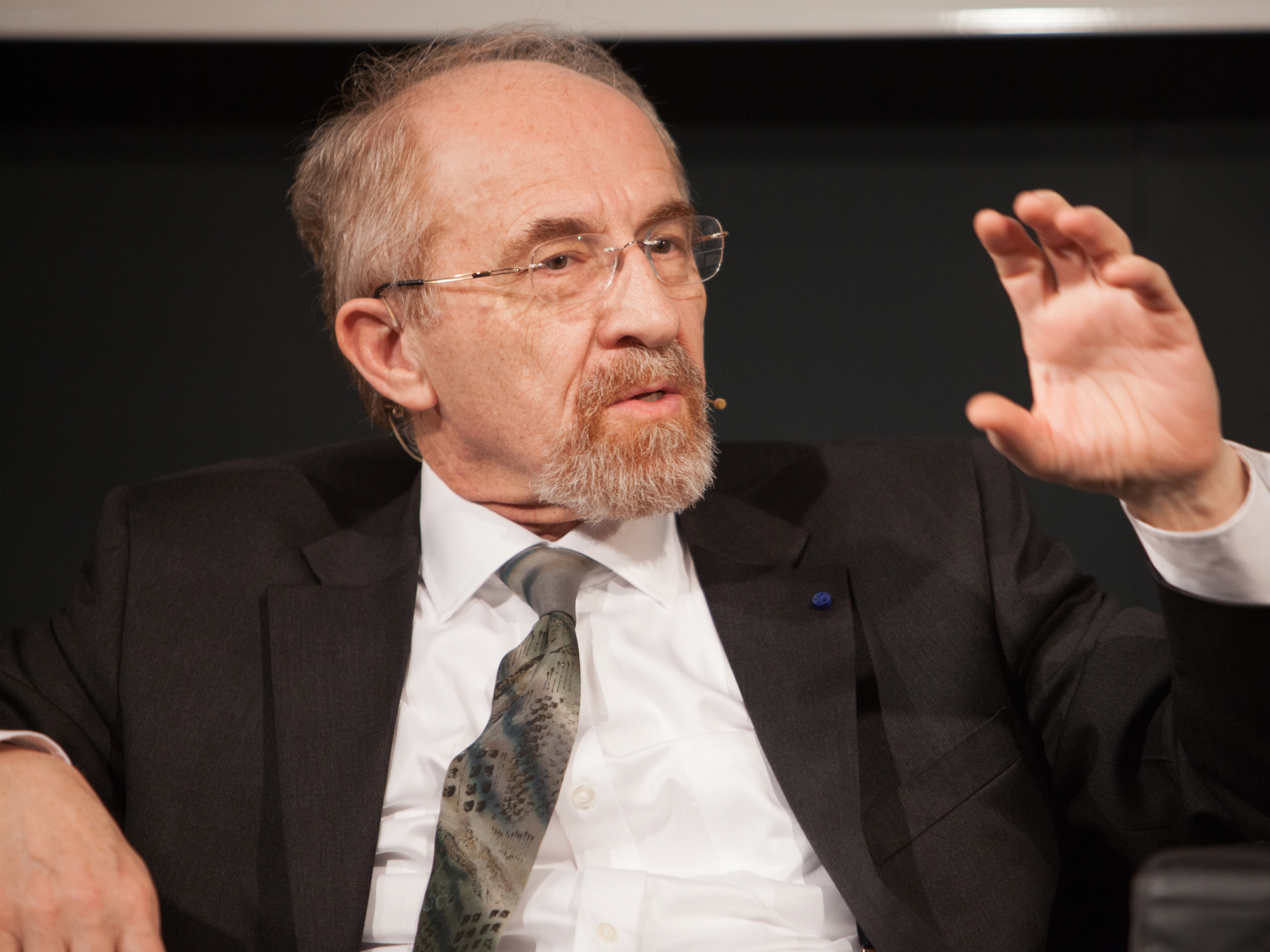 Prof. Henry Fuchs in the podium disucssion at the Visual Computing Trends Symposium on January 29, 2015.